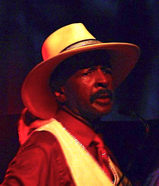 Larry Graham performing at 17th International Istanbul Jazz Festival (July 2010)